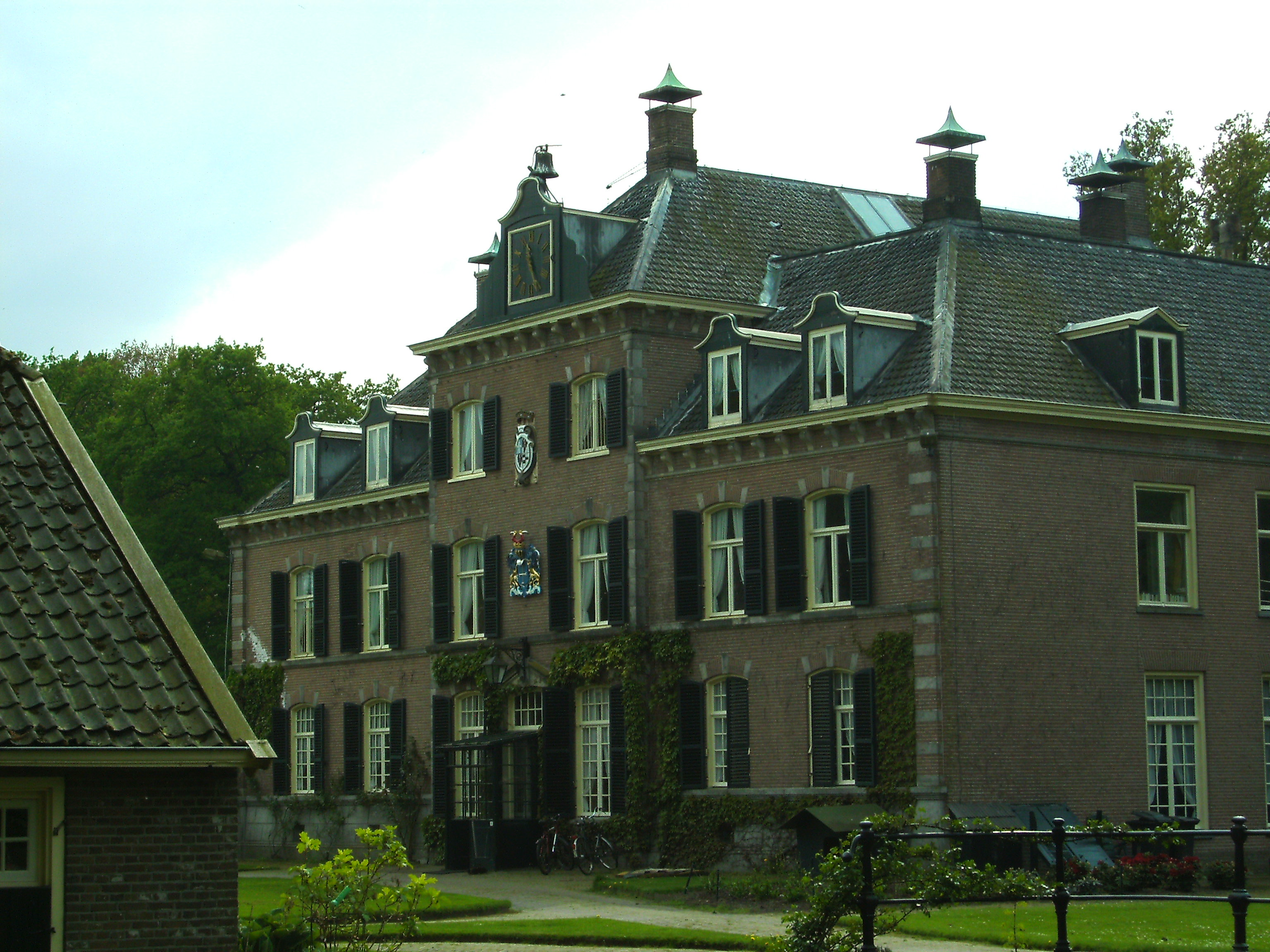 Former house of the duke of Portland in 2009